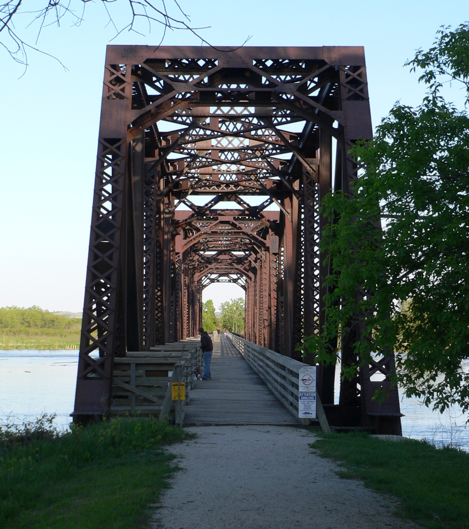 Niobrara River Bridge near the mouth of the Niobrara in Knox County, Nebraska; seen from the west. The bridge was built in 1929 to carry the Chicago and North Western Railroad across the Niobrara immediately upstream from its confluence with the Missouri. It consists of three rigid-connected Warren through truss spans at the west end, then seven steel plate through girders, then 29 timber stringer approach spans over the floodplain to the east. It is now a part of Niobrara State Park, where it serves as a footbridge. The bridge is listed in the National Register of Historic Places. In the photo, left is downstream.